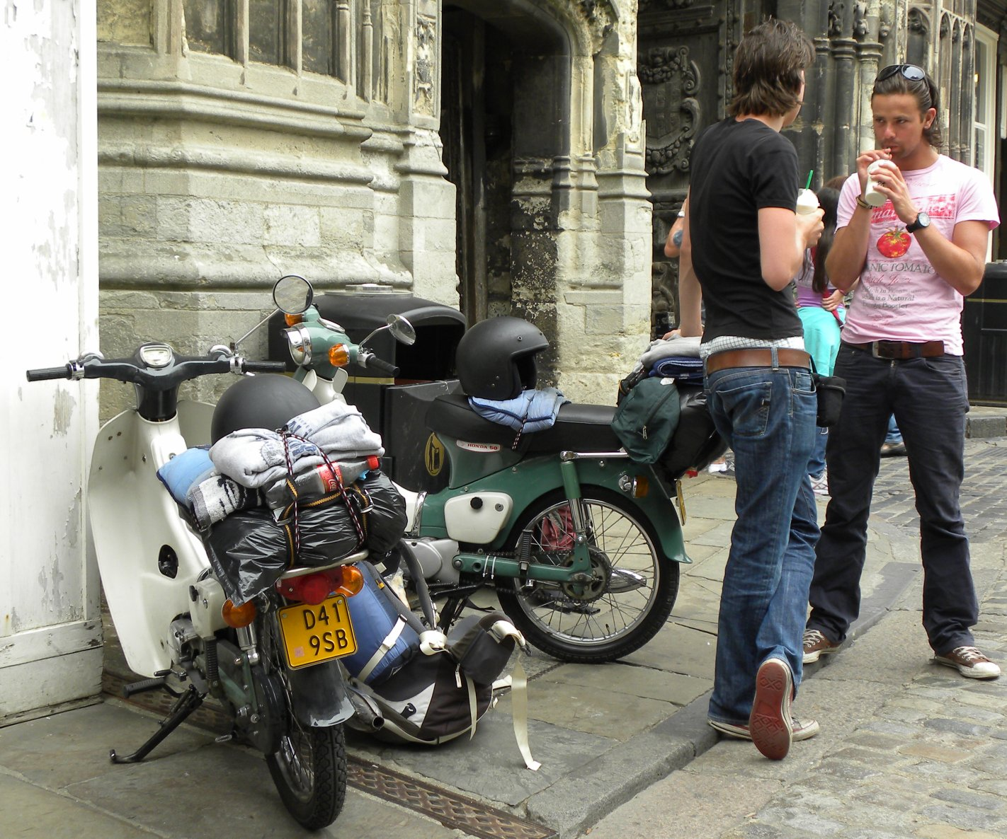 ...I did something similar once. On a Honda 70 - but I didn't travel as far as they had.